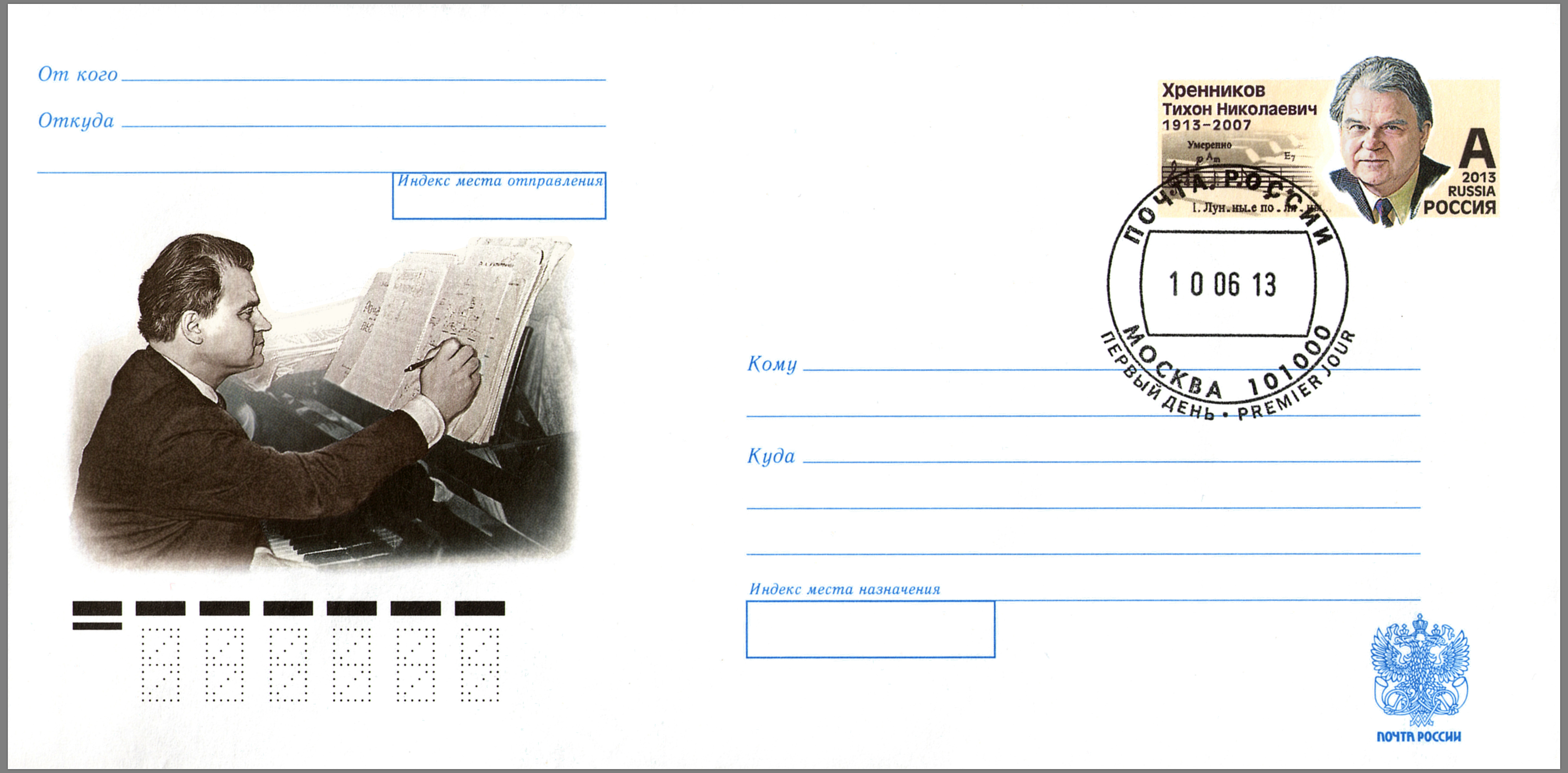 The 100th birth anniversary of Tikhon Khrennikov (1913—2007), a Soviet and Russian composer. The illustrated postal stationery envelope with commemorative stamp, Russia, 10 Juny 2013. PTC Marka Catalogue No 242. Envelope paper VBM (ВБМ) with watermarks “ПОЧТА РОССИИ”. Offset printing. Size of the envelope: 110×220 mm. Print run: 1,000,000. The stamp (non-denominated, “Letter A”, for domestic letters, weight 20 g or less): the portrait of Tikhon Khrennikov (after the photo by Vasily Malyshev (1900—1986)); the first bars of The Lullaby for Svetalana, a song for the film Hussar Ballad. The illustration: Tikhon Khrennikov at work (1958, after the photo by Galina Kmit (born 1931)). The cancellation with the universal first day postmark, Moscow, 10 June 2013.